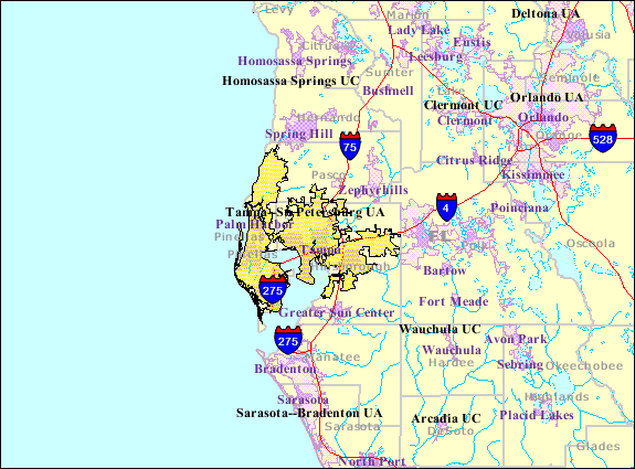 Map of Tampa-St. Petersburg, FL Urbanized Area as defined by United States Census Bureau